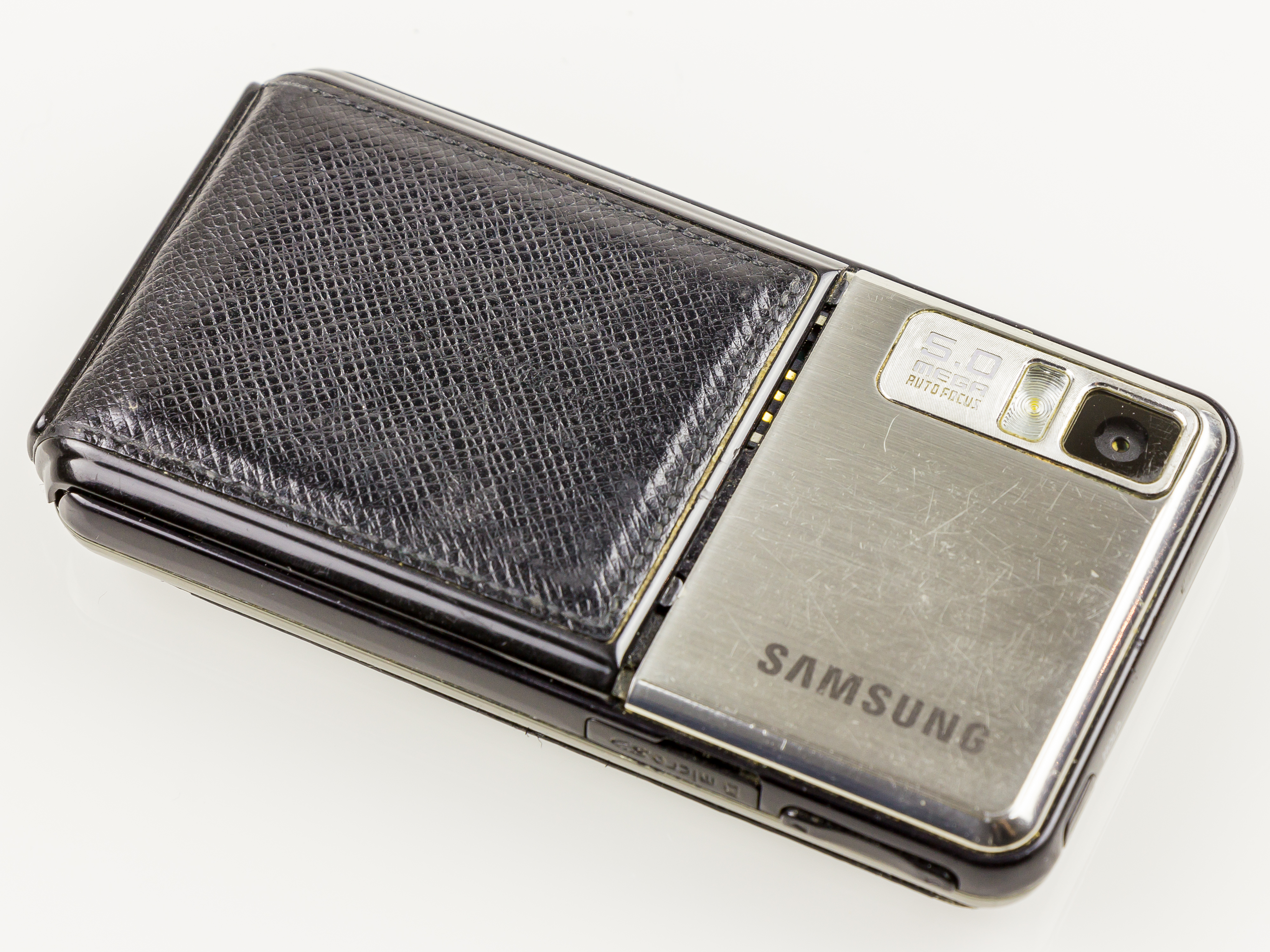 Samsug SGH-F480V